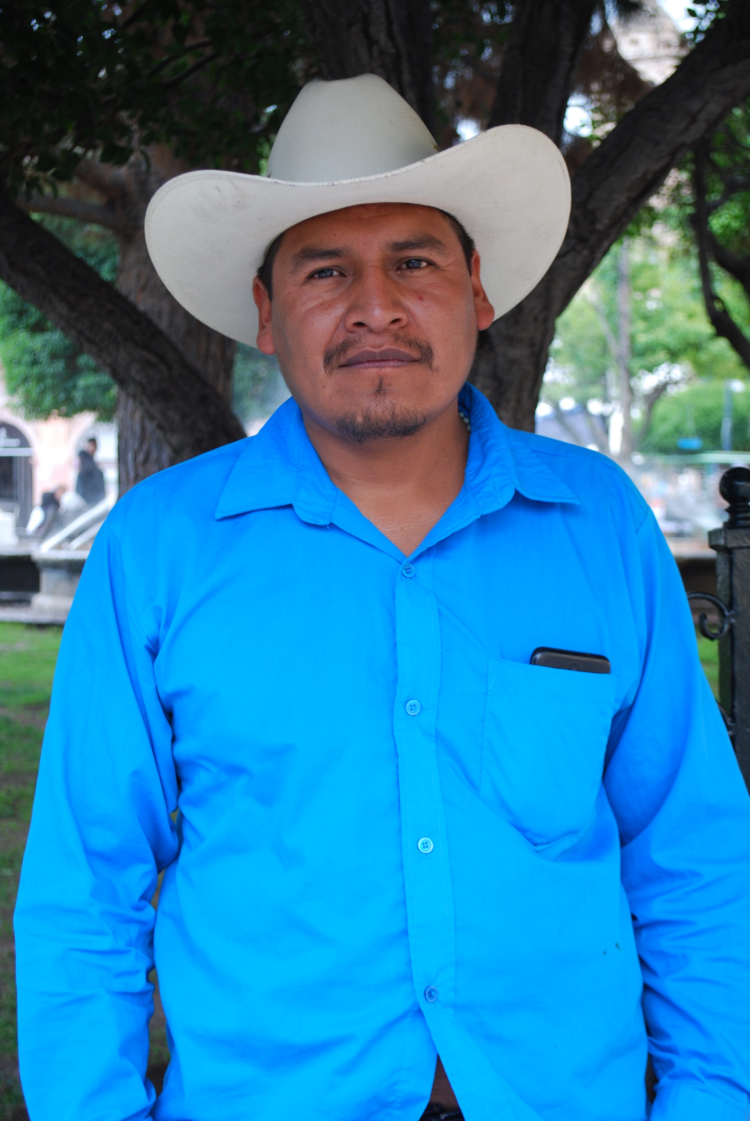 Craftsman and Tepehuano Rosalio Caldera at the Plaza de las Armas in Victoria de Durango, Mexico